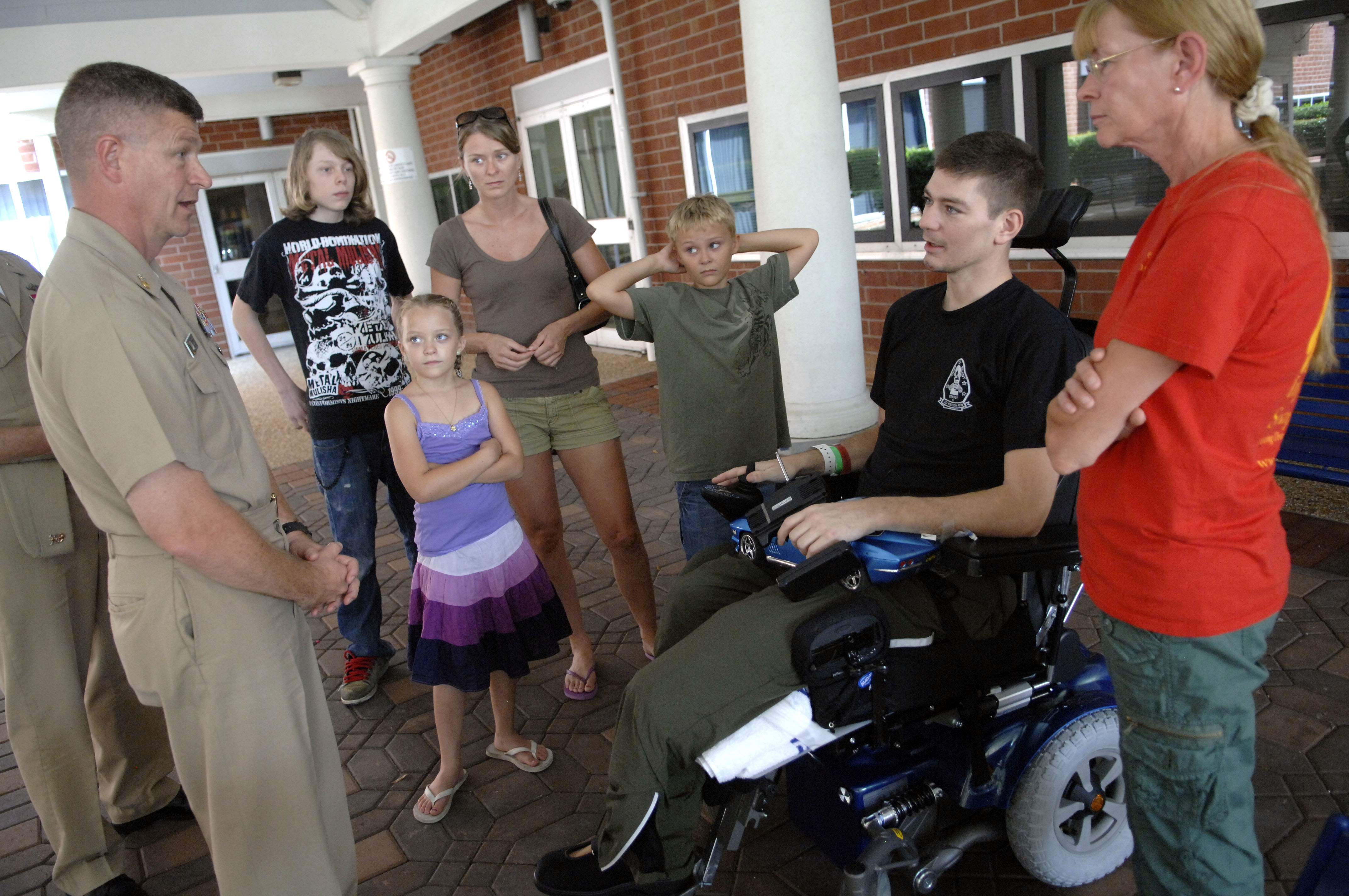 RICHMOND, Va. (Aug. 21, 2009) Master Chief Petty Officer of the Navy (MCPON) Rick West speaks with Marine Corps Sgt. Joshua Boucard and his family during his visit to the Hunter Holmes McGuire Richmond VA Medical Center. (U.S. Navy photo by Mass Communication Specialist 1st Class Jennifer A. Villalovos/Released)